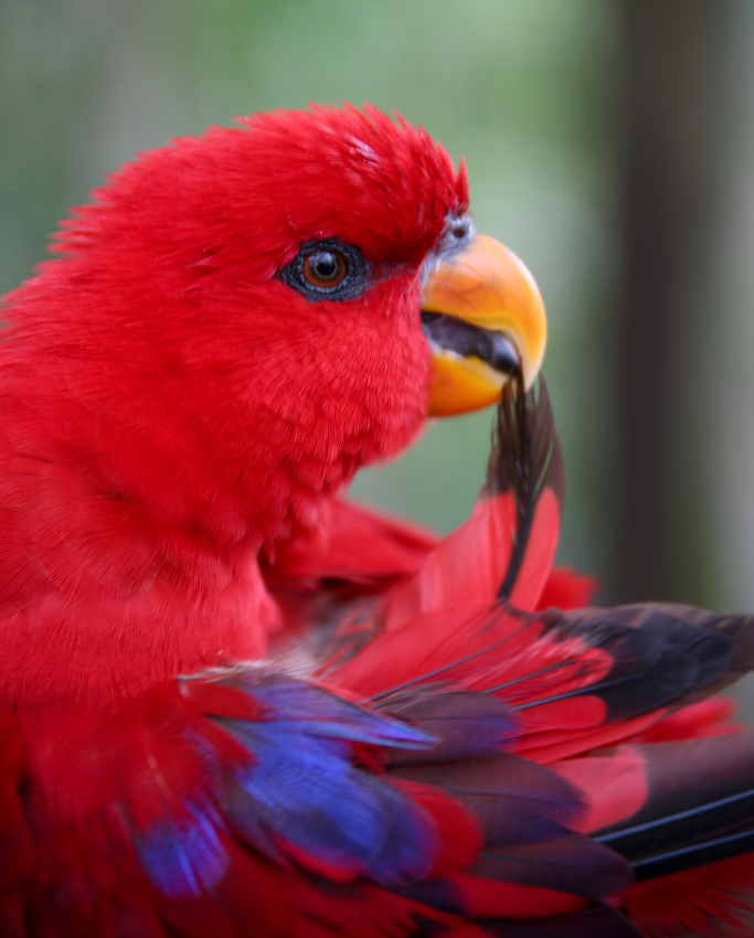 Red Lory (Eos bornea) upper body preening feathers.